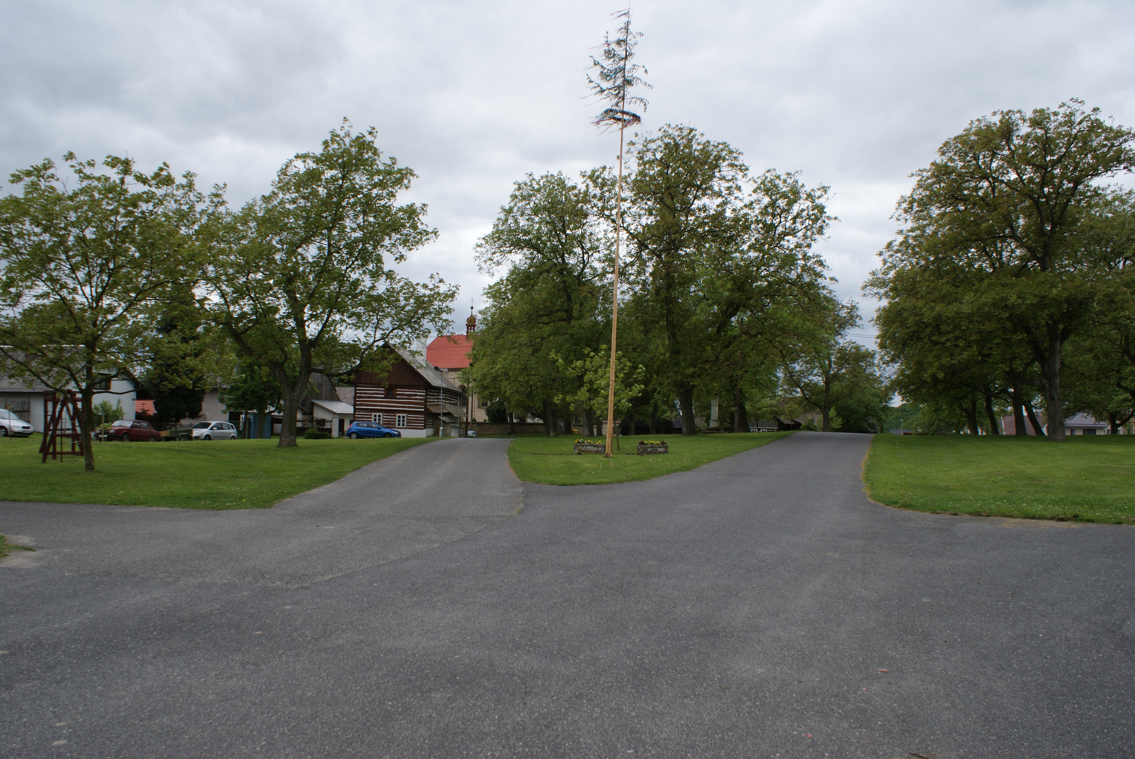 Sudoměř, Mladá Boleslav district, Czech Republic, village common.